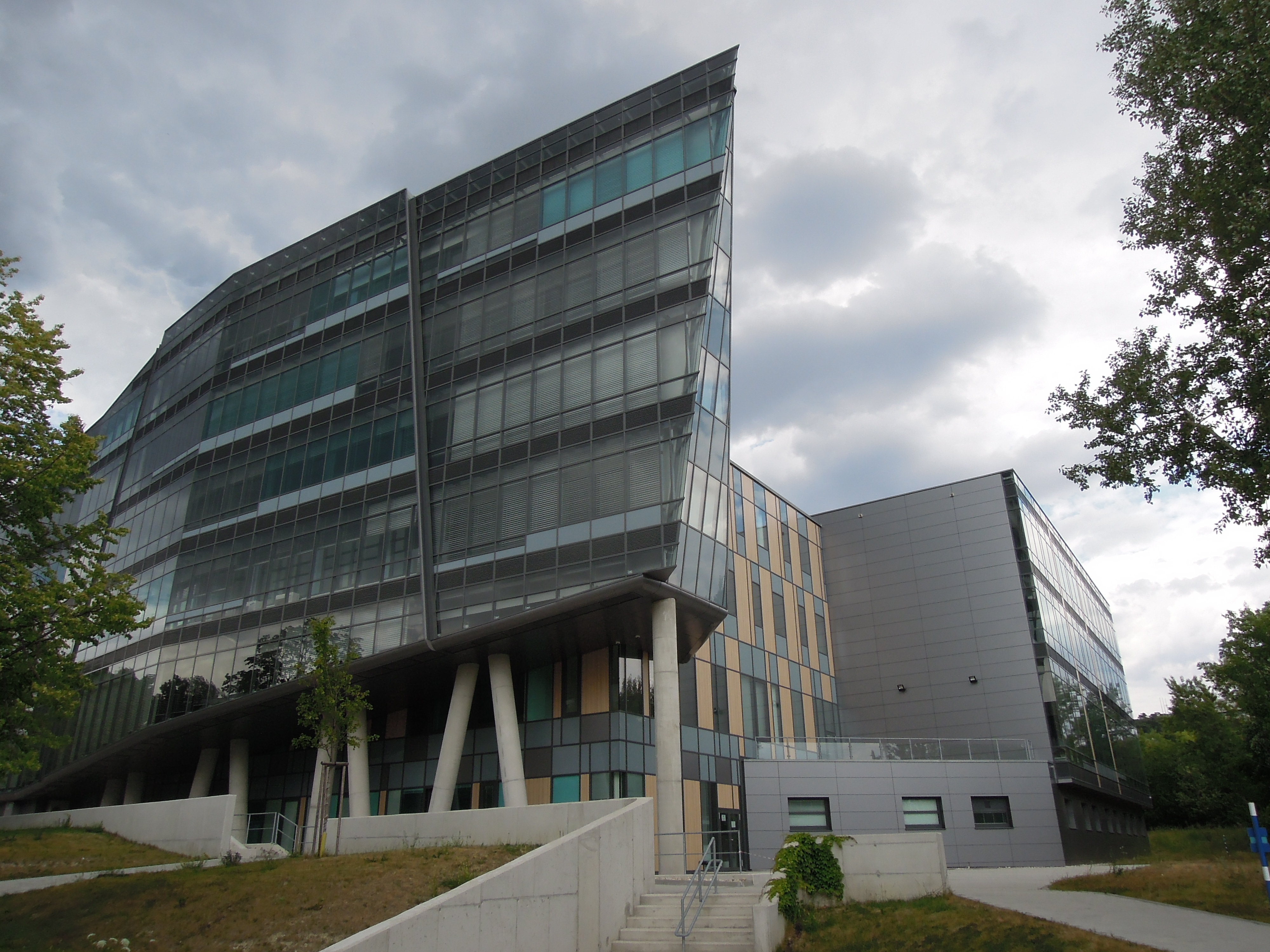 Building of Comenius University Science Park in the Mlynská dolina Valley, Bratislava, Slovakia.